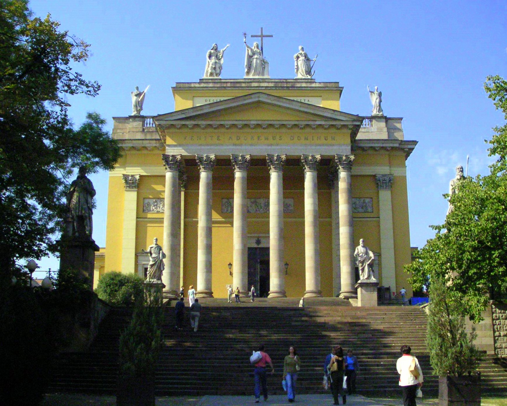 Eger Basilica, Hungary Author: Wojsyl